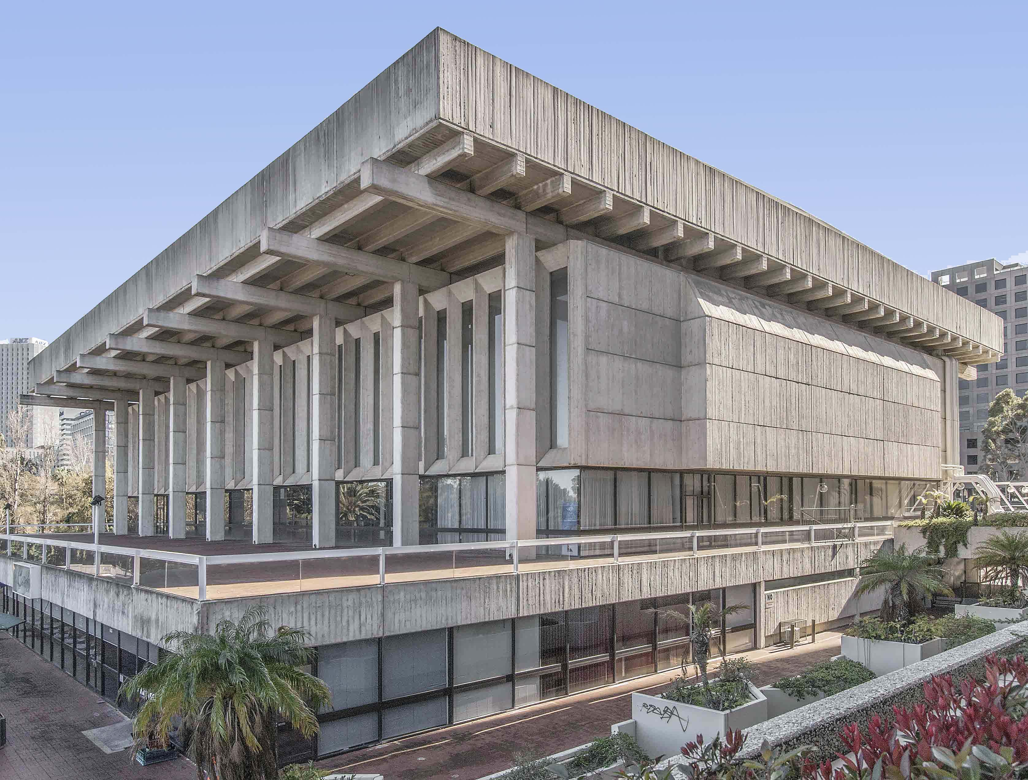 Note lintel and post supports under the roof